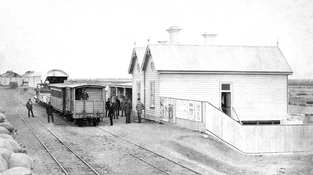 An 1881 photo of the first railway station building at Port Pirie, South Australia, with a narrow-gauge (1067 mm) train and railwaymen and bystanders, posed, next to it. A South Australian Railways G class locomotive is at the front of the train and a "blue brake" brakevan, with guard, is at the back.